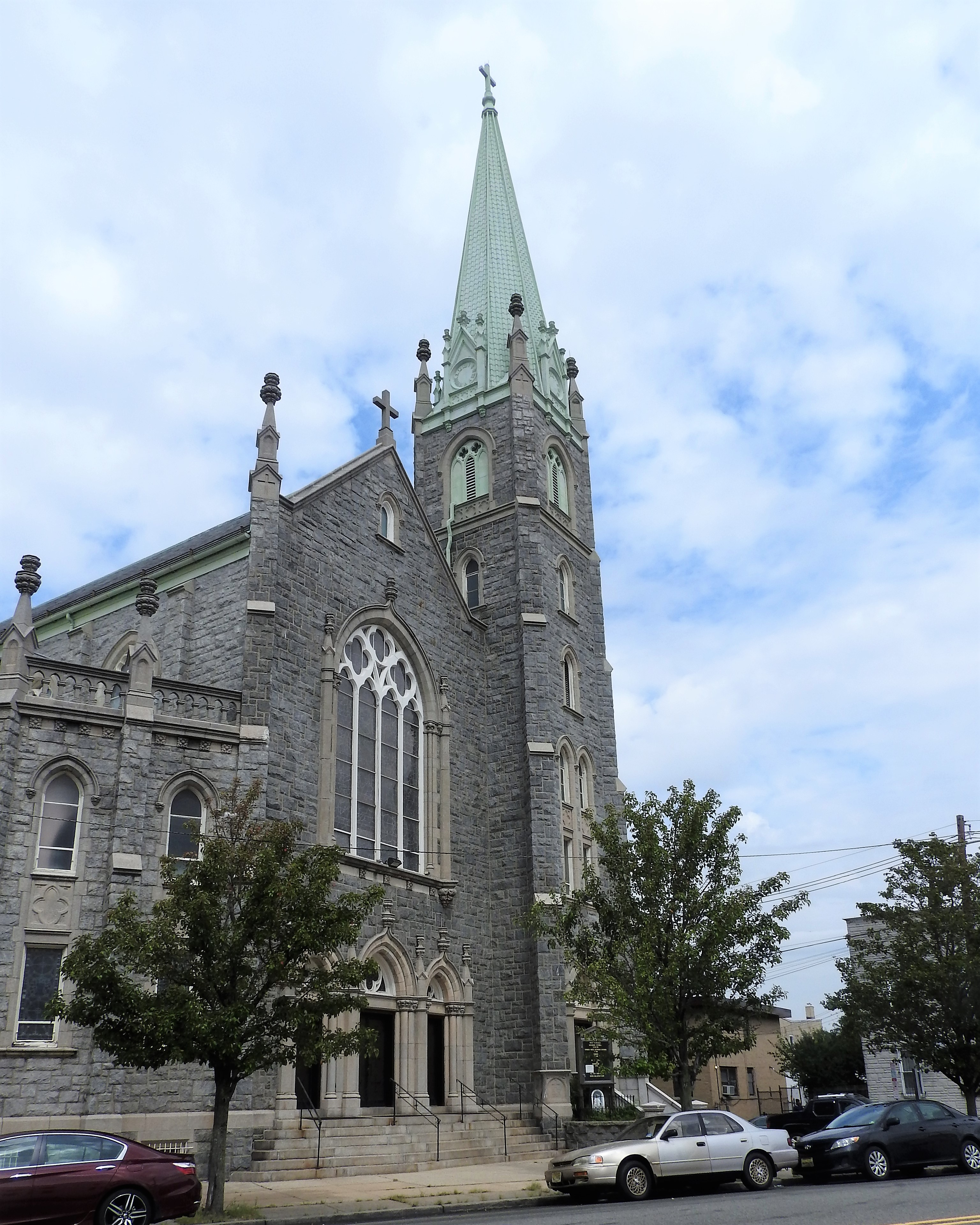 Looking north across JFK Boulevard at St Ann's